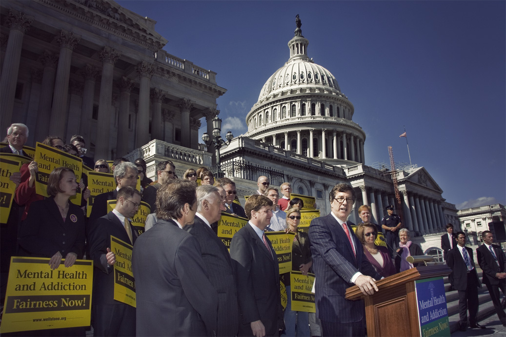 Mental Health Parity Rally, March 5th 2008. Speaker Nancy Pelosi, Majority Leader Harry Reid, Congressman Patrick Kennedy, and David Wellstone (son of the late Senator Paul Wellstone) are also pictured. Former First Lady Rosslyn Carter is standing directly behind Congressman Ramstad.